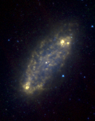 Image of the NGC 2976 galaxy in Infrared at 3.6 (blue), 5.8 (green) and 8.0 (red) µm. The image has been made by myself (Médéric Boquien) from the data retrieved on the SINGS project public archives of the Spitzer Space Telescope (courtesy NASA/JPL-Caltech)